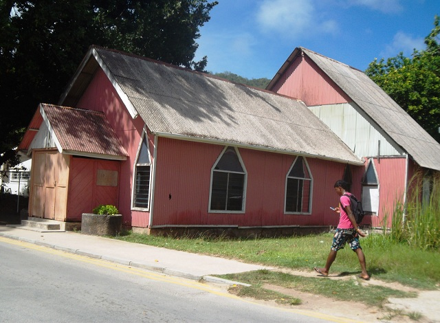 St. Mark's Anglican Church, Praslin Island, Seychelles. Originally built in 1852.